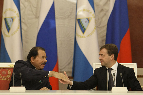 GRAND KREMLIN PALACE, MOSCOW. Press statement following Russian-Nicaraguan talks. With President of the Republic of Nicaragua Daniel Ortega Saavedra.